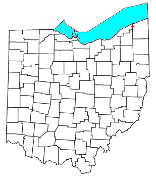 Locator map of the unincorporated community of Unionville in Ashtabula and Lake Counties in the U.S. state of Ohio.